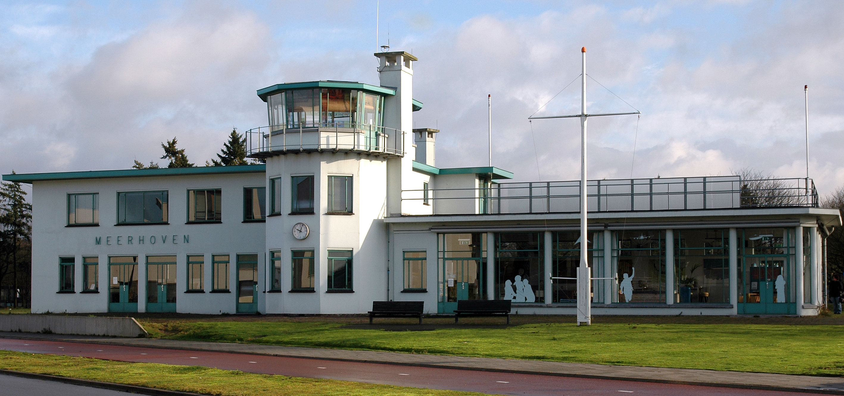 Former airport builing of Welschap airport in Eindhoven, The Netherlands